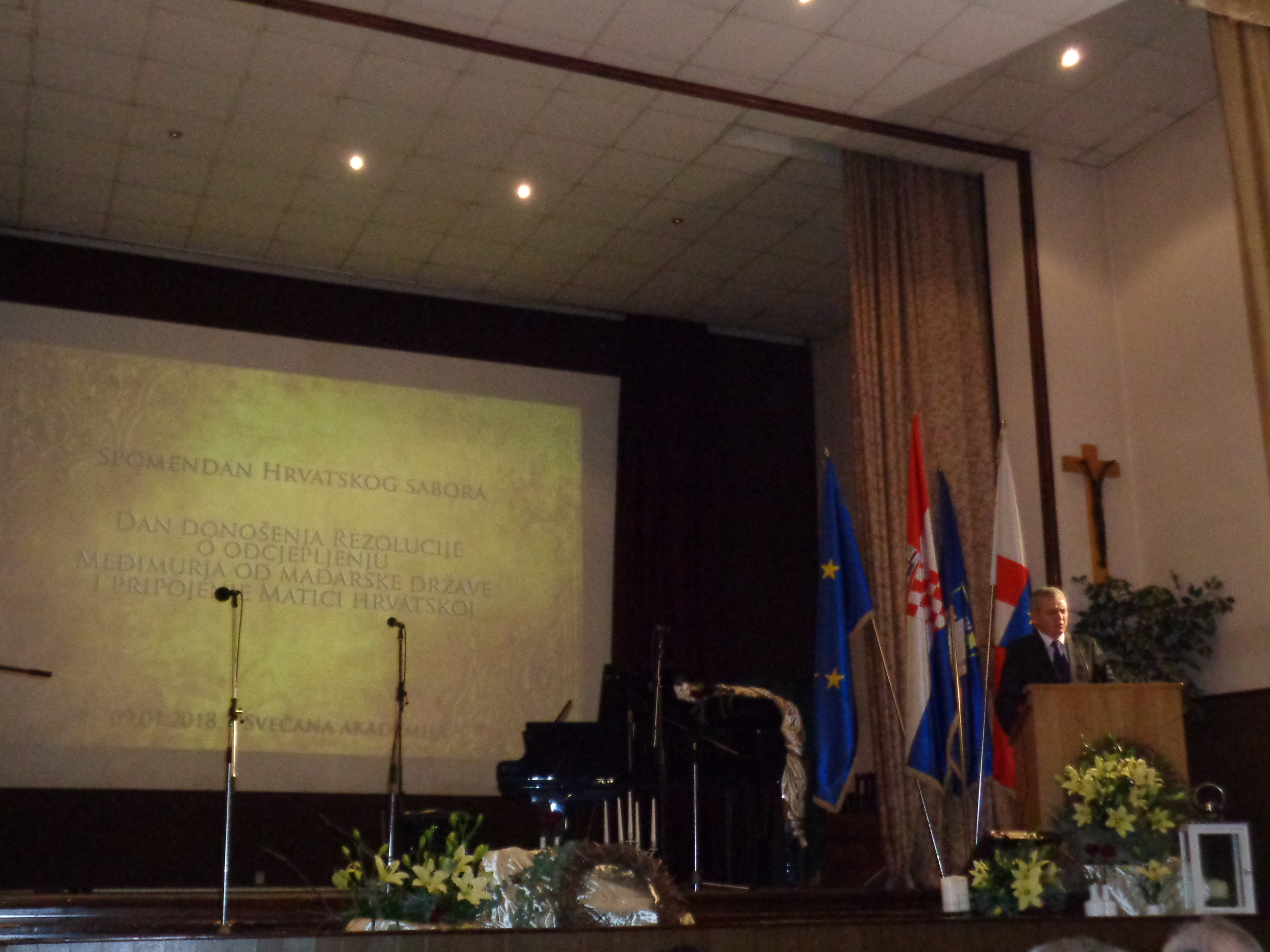 99th Anniversary of the 1918 Liberation of Medjimurie, Croatia, in Čakovec: former Government minister Darko Horvat speaking